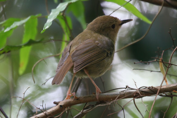 Atherton Scrubwren (Sericornis keri), Kuranda, Queensland, Australia.